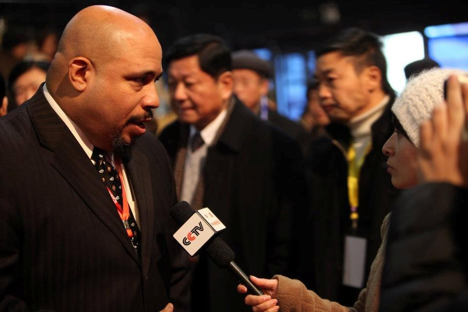 Ralph Remington being interviewed by CCTV in Beijing.